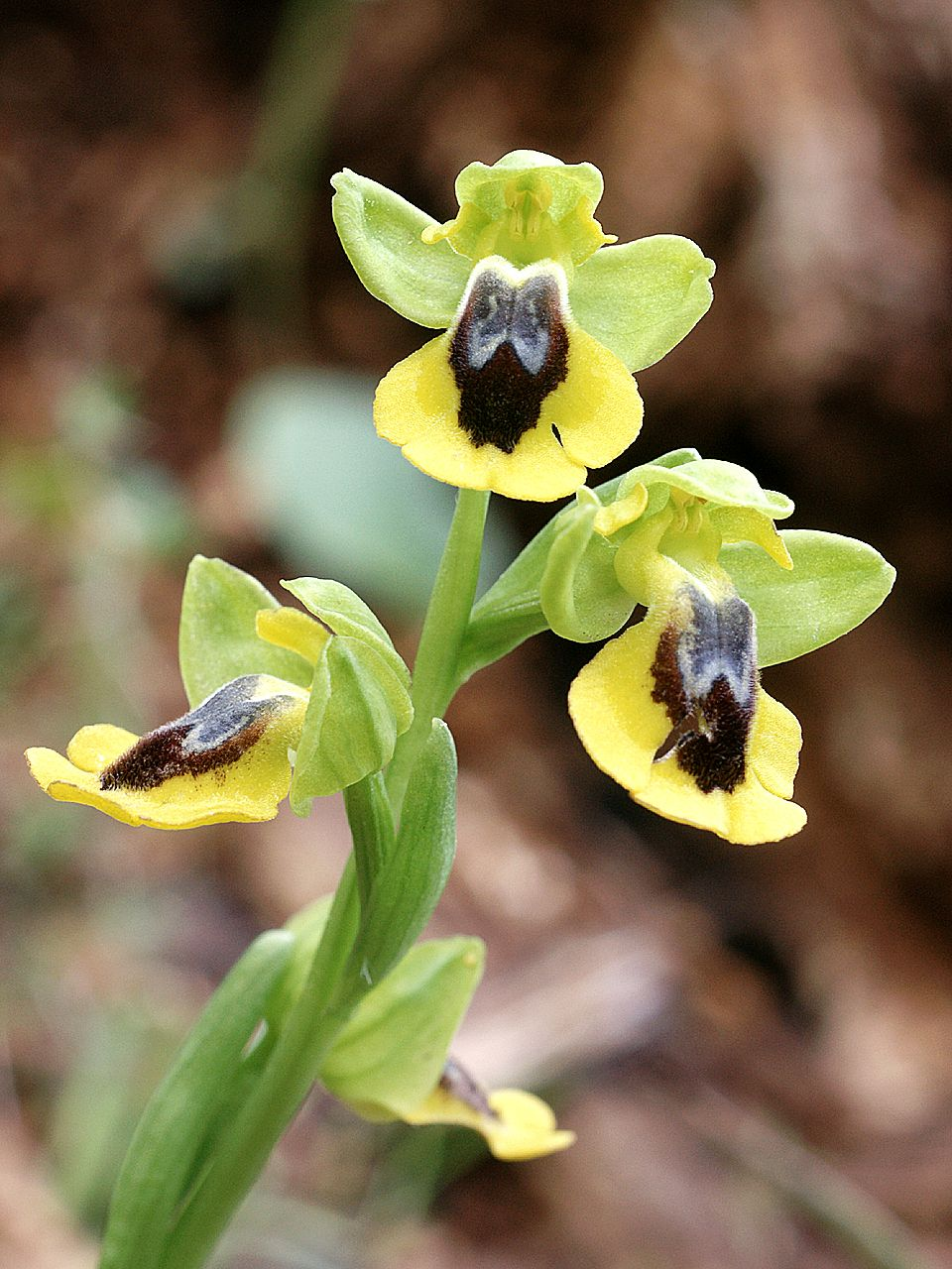 Ophrys lutea - flowers